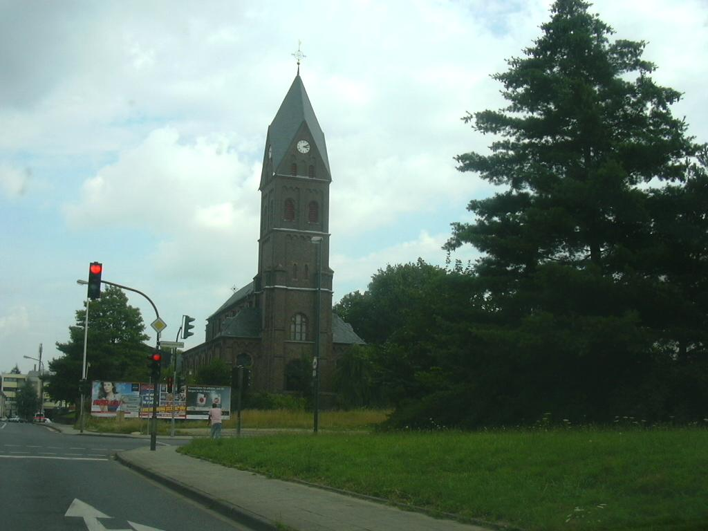 Mariaweiler (Düren), Kirche own work papa1234 2006-08-04